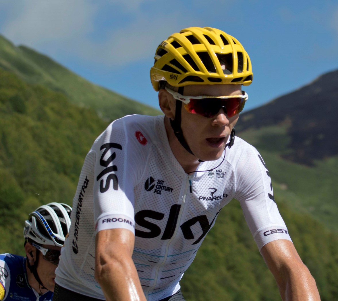 14-7_6 froome